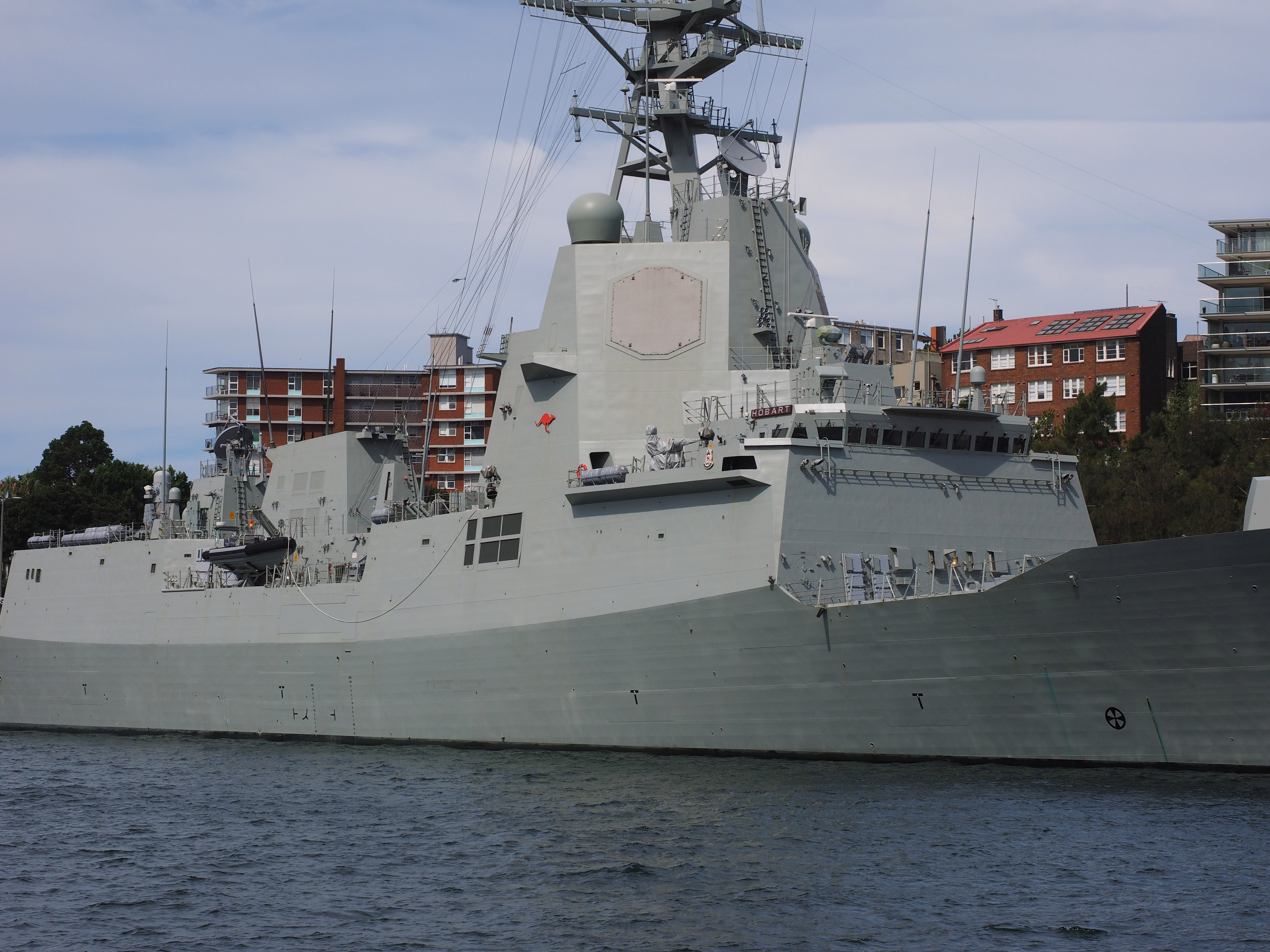 HMAS Hobart's superstructure